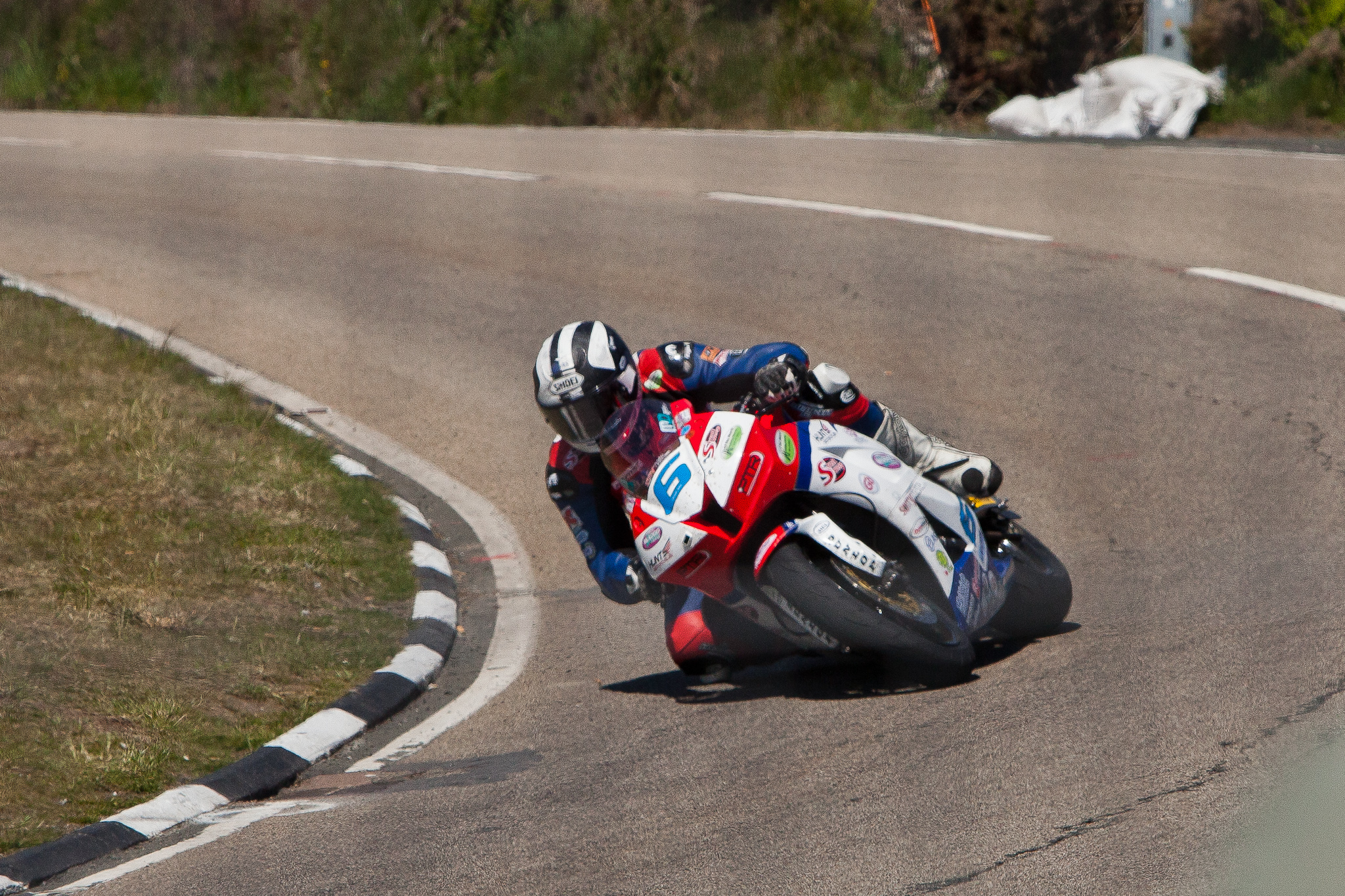 Michael Dunlop at Creg-ny-Baa this afternoon in the second supersport race. He went on to make it his fourth (out of four) win at this year's TT. Isle of Man TT 2013 - Supersport Race 2